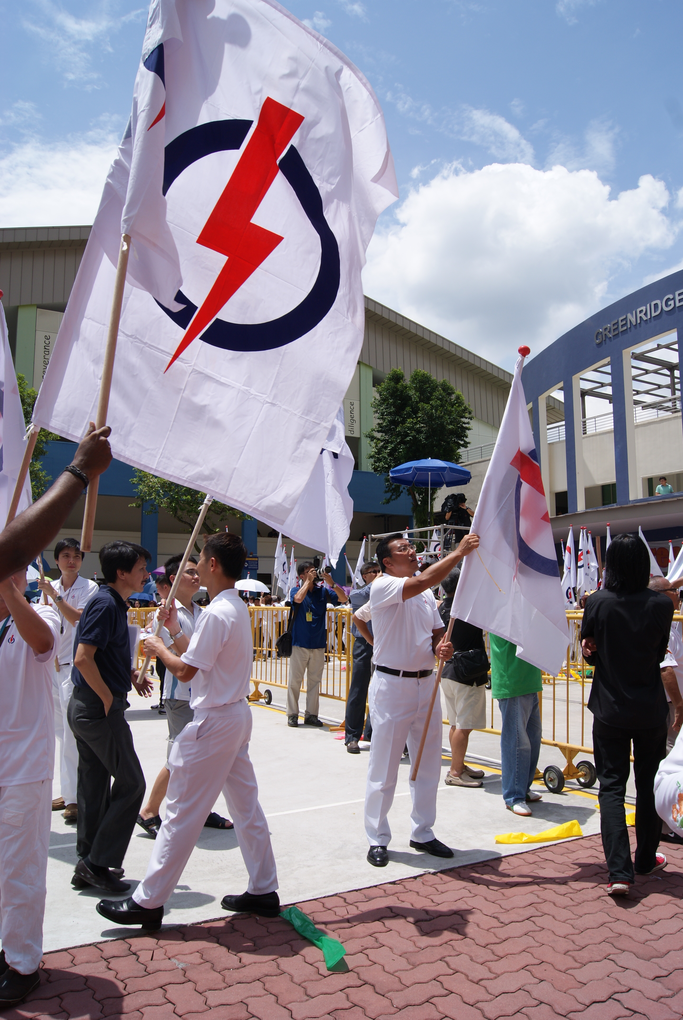 People's Action Party supporters holding banners with their party symbol at Greenridge Secondary School in Bukit Panjang, Singapore, which was used as the nomination centre for Bukit Panjang Single Member Constituency and Holland-Bukit Timah Group Representation Constituency during the Singaporean general election, 2011.